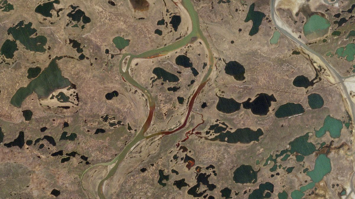 This handout photo released by European Space Agency captured on Saturday, May 31, 2020 by the Copernicus Sentinel-2 mission shows the extent of the oil spill, in red, near a power plant in the Siberian city of Norilsk, 2,900 kilometers (1,800 miles) northeast of Moscow, Russia. Russian President Vladimir Putin has declared a state of emergency in a region of Siberia after an estimated 20,000 tons of diesel fuel spilled from a power plant storage facility and fouled waterways.